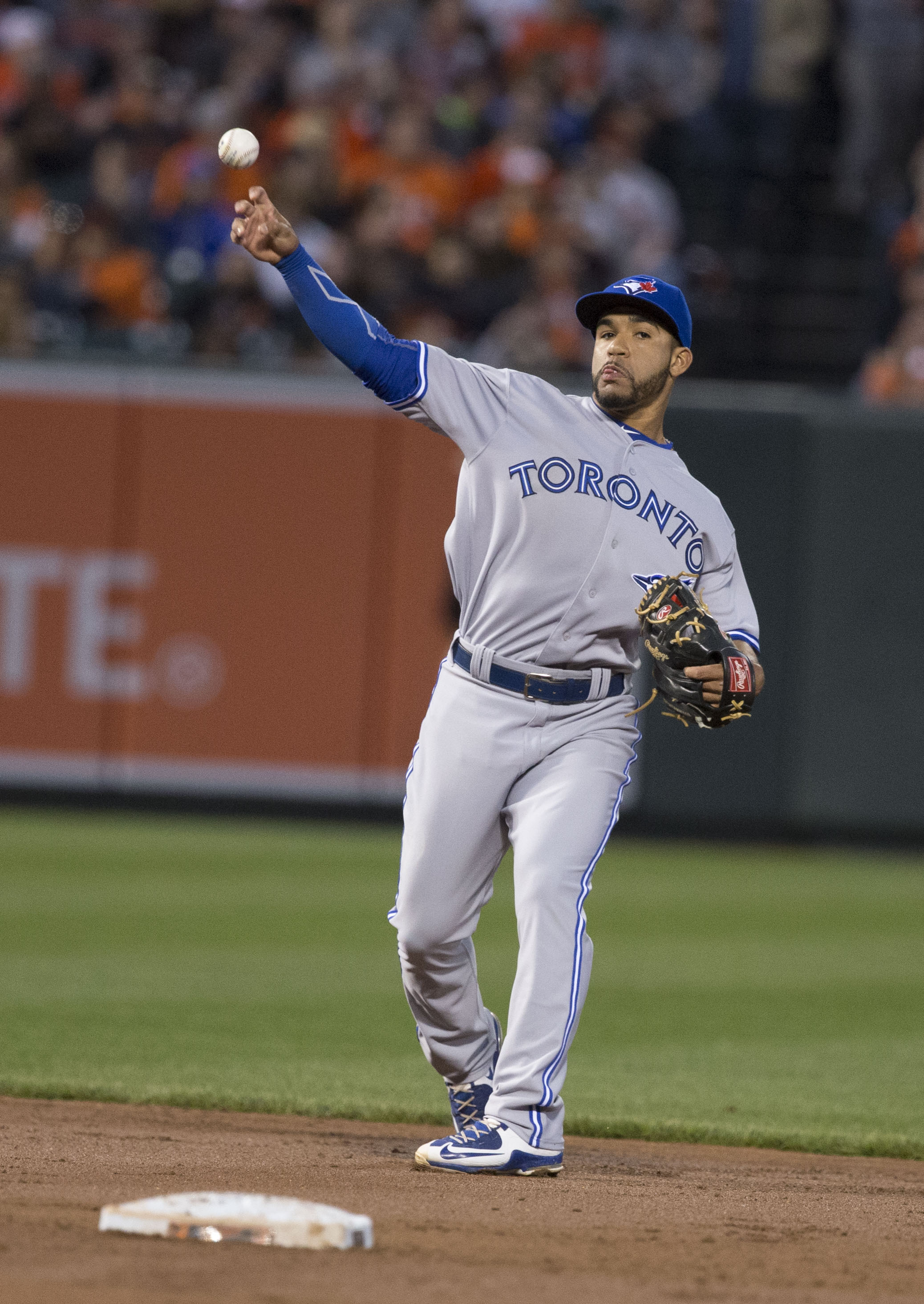 Blue Jays at Orioles 04/11/15